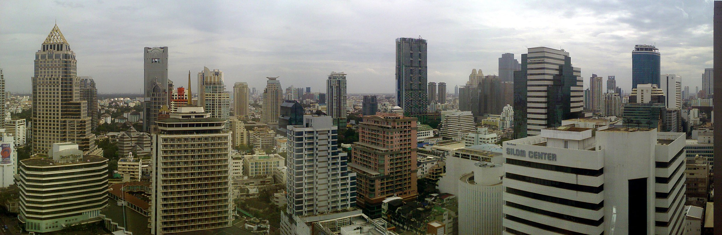 Wide-angle view of skyscrapers in the Si Lom – Sathon business district in Bangkok, taken from the eighteenth floor of ภปร Building, King Chulalongkorn Memorial Hospital (photo taken 25 September 2008)